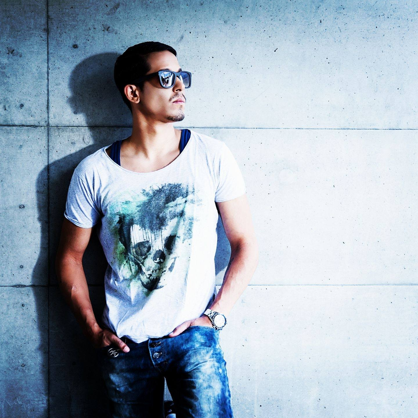 Patrick Miller